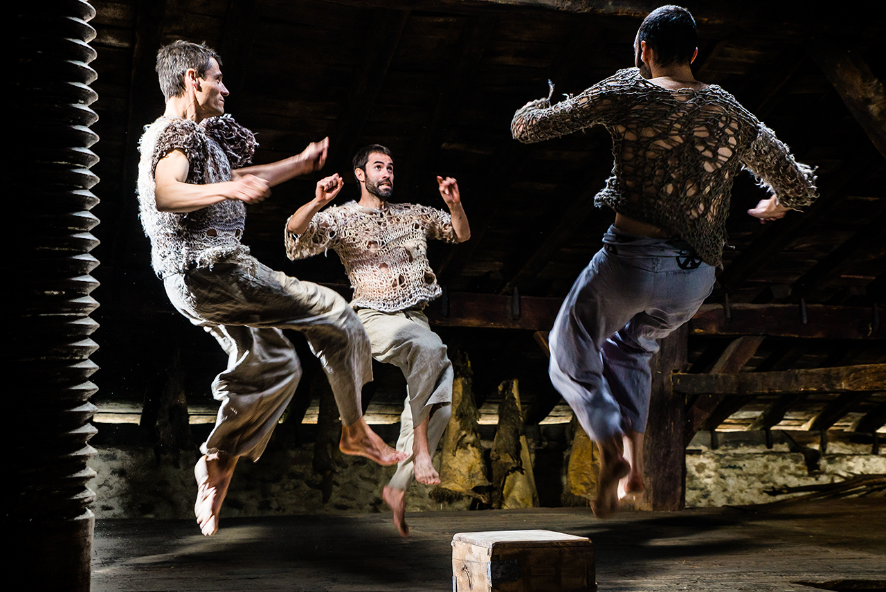 Almute dantza